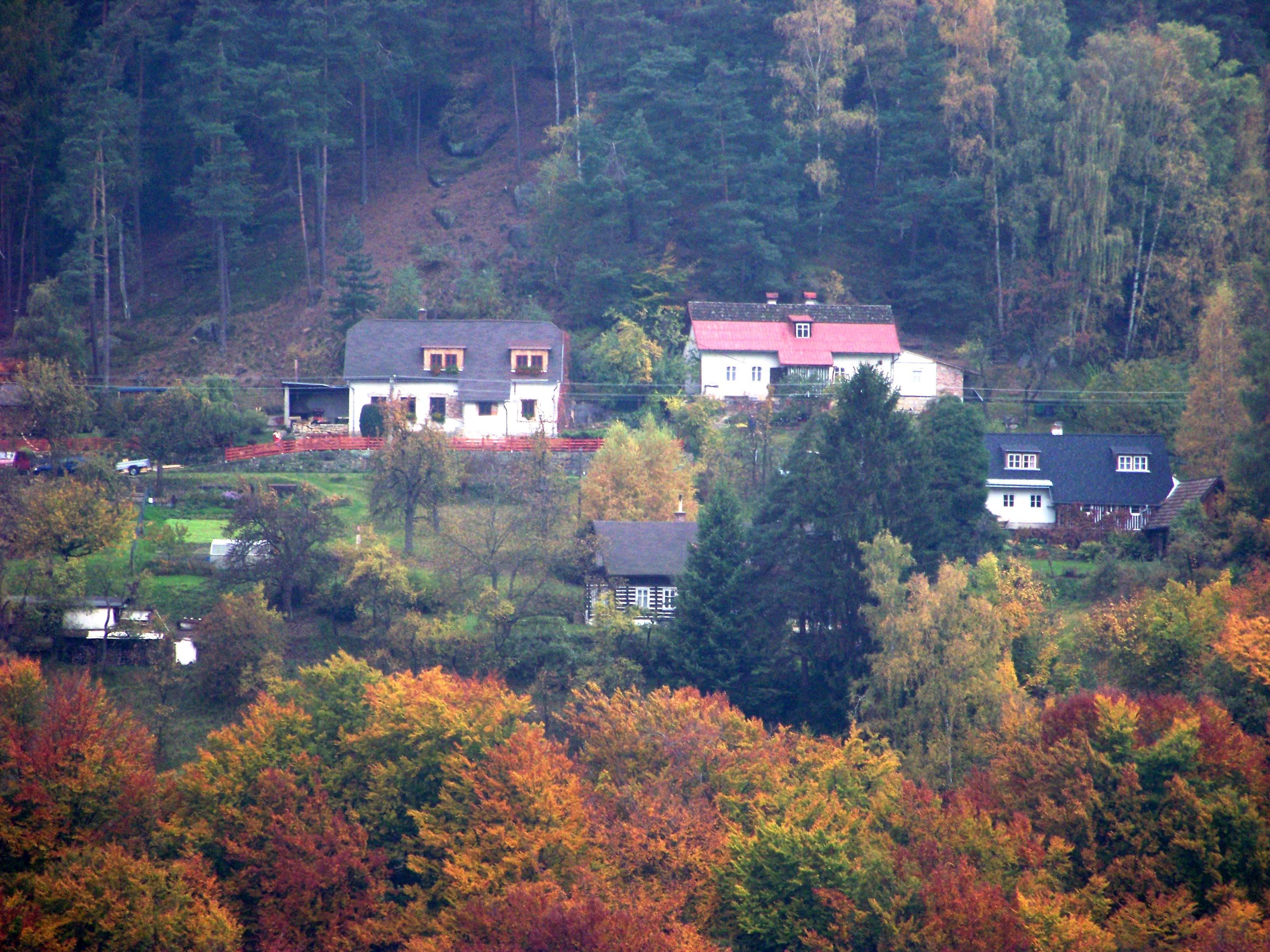 Malá Skála-Záborčí, Jablonec nad Nisou District, Liberec Region, the Czech Republic. Object location50° 37′ 55″ N, 15° 10′ 59″ E